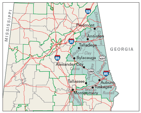 Alabama's 3rd district.